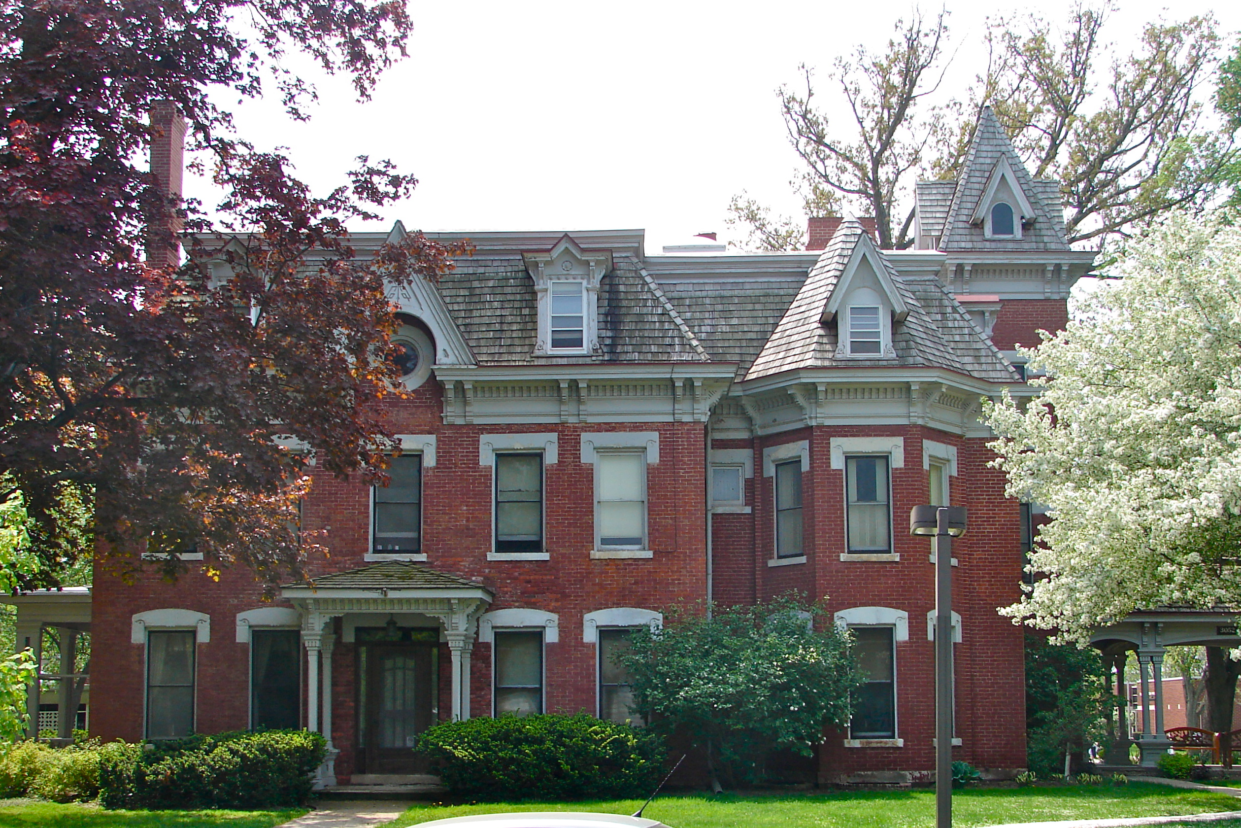 Weyerhaeuser House on the NRHP since September 11, 1975. At 3052 10th Ave., Rock Island, Illinois. Rock Island home of lumber baron Frederick Weyerhaeuser. He bought the house in 1865 and extensively renovated it 1882-1883 in the Second Empire style. Near and now related to Augustana College.